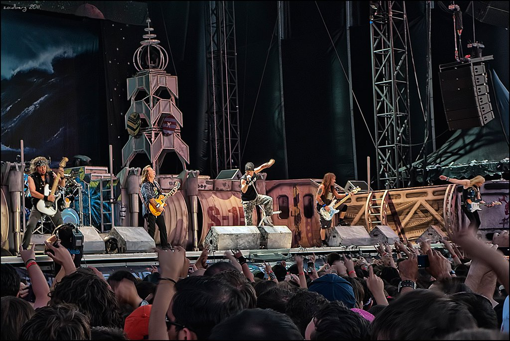 Iron Maiden live at Sonisphere Getafe Open Air, Madrid, Spain 2011